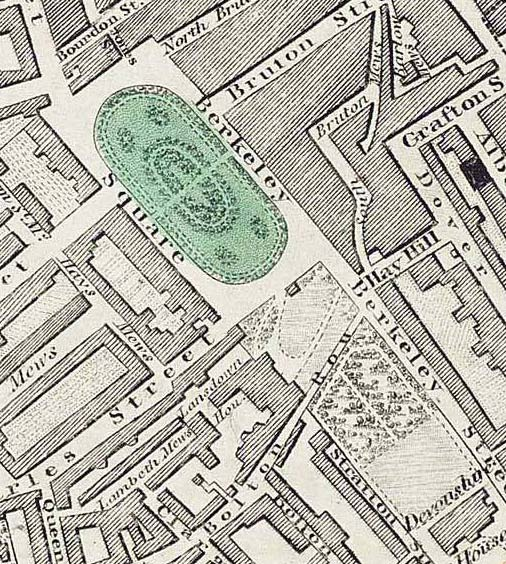 Berkeley Square in London showing Lansdowne House at the south west corner. Greenwood's Map of London (1830).